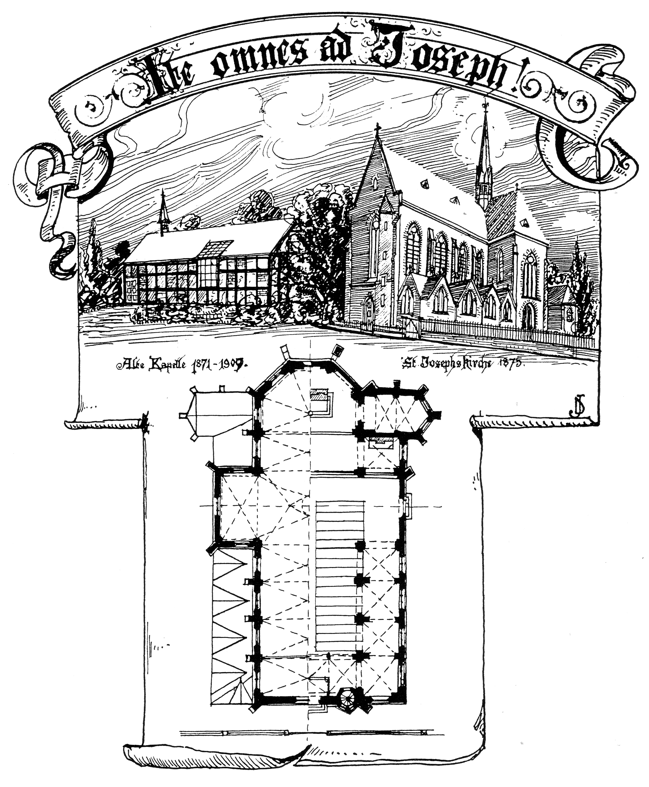 Old St.-Josefs Church and chapel from 1871 in Frankfurt am Main-Bornheim, 1876